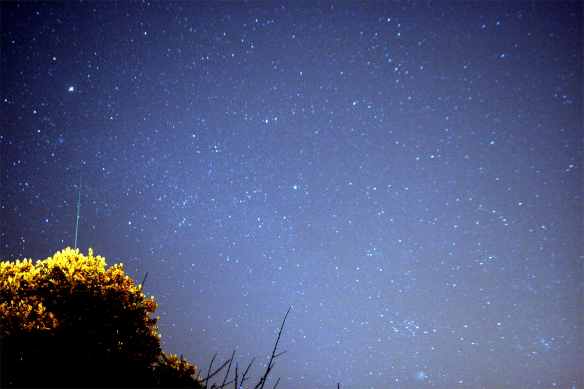 Comet 17P/Holmes and Geminid meteor seen from San Francisco.